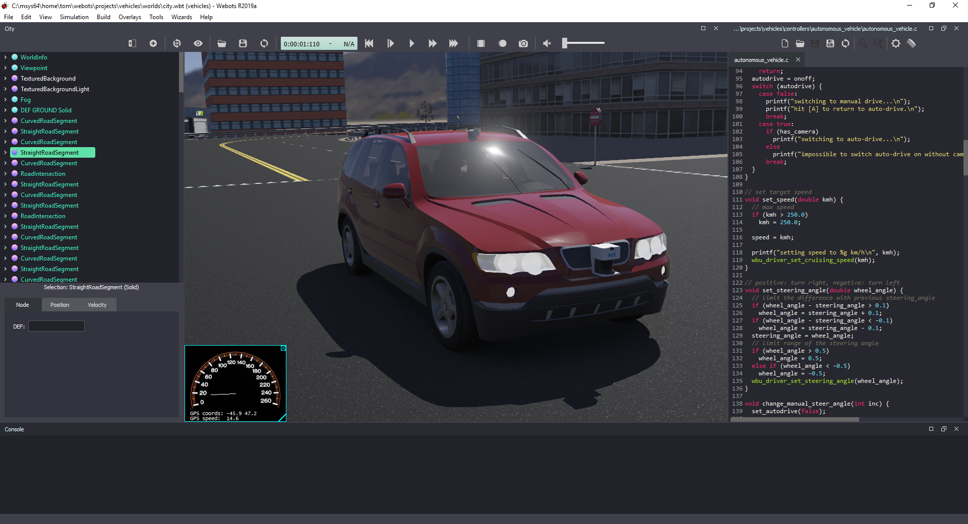 Webots Interface.